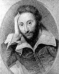 so-called Zucchero or Zuccari portrait of Shakespeare, as reproduced c 1800. Attributed to Federico Zuccari